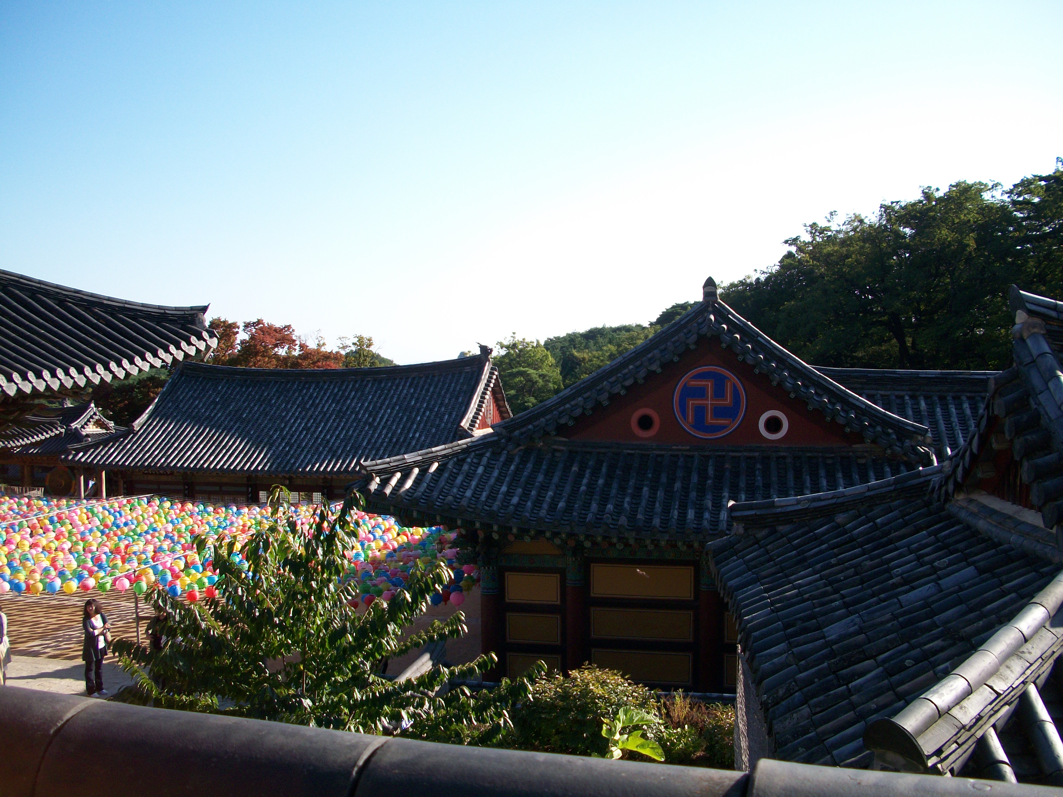 Donghwasa Temple is an authentic Buddhist temple established in 493 A.D. In 832, the temple was expanded. It holds more than 10 registered Korean treasures.